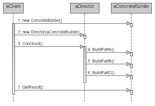 The UML sequence diagram which illustrates the Builder design pattern.